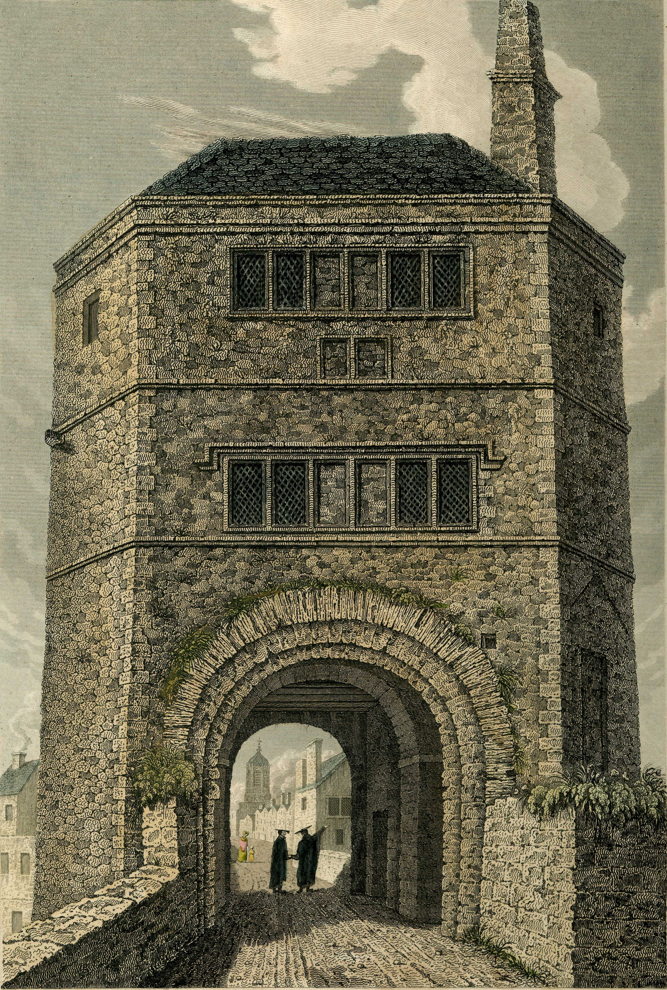 Detailed engraving of the "Friar Bacon's Study" on Folly Bridge, Oxford. St Aldate's can be seen through the arc. "...external view of the study of a Franciscan friar, Roger Bacon, an Oxford scholar famous for his unorthodox scientific and mathematical work. By the late 18th century this study, on Folly Bridge, had become a place of pilgrimage for scientists. Samuel Pepys visited it in 1669, remarking: "So to Friar Bacon's study: I up and saw it, and gave the man 1s[hilling] ... Oxford mighty fine place". The building was pulled down in the 18th century to allow for road widening."[1]